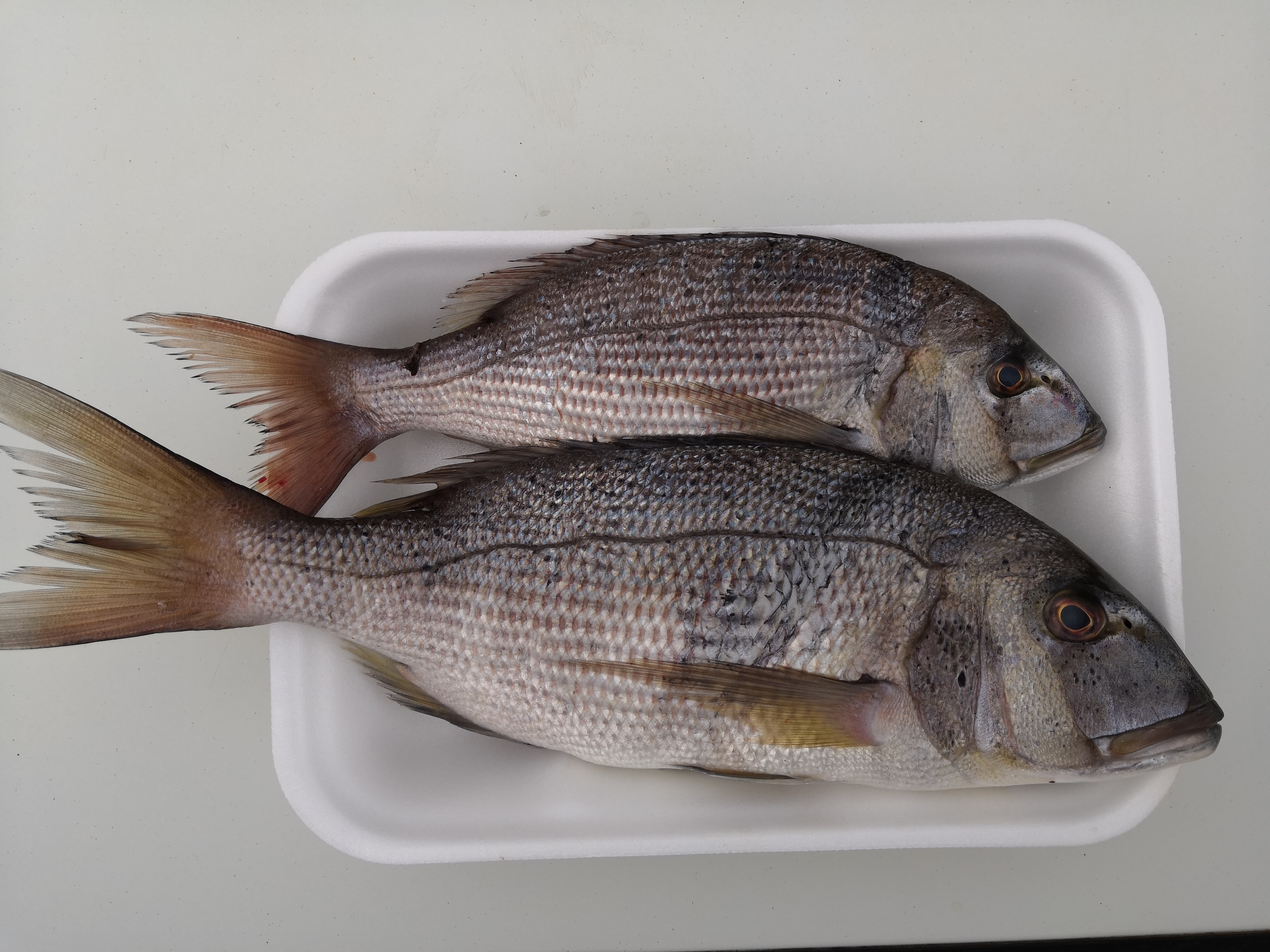 Two young dentex dentex, aprox. 20 cm and 30 cm long